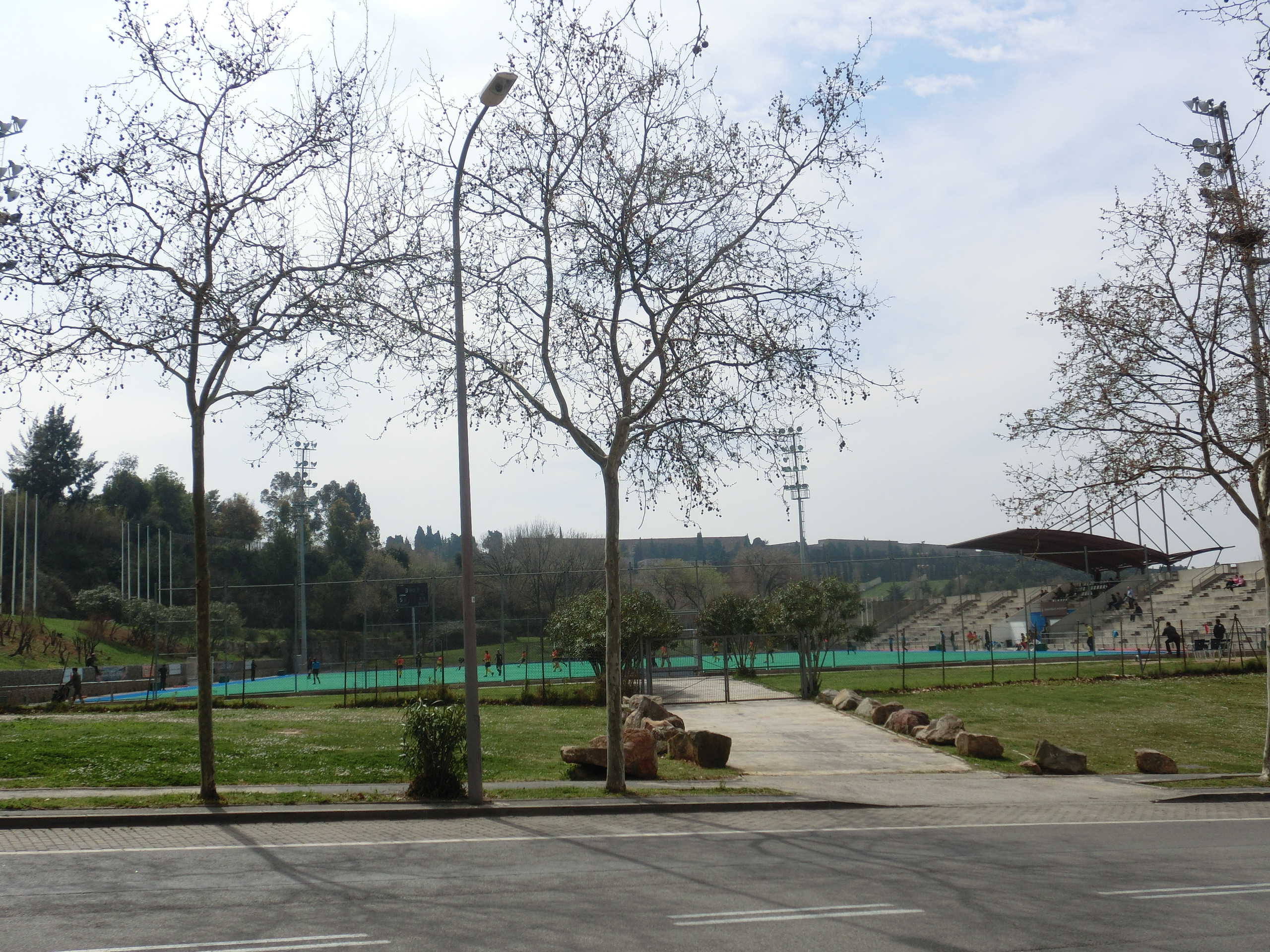 Pau Negre hockey field, in Montjuïc (Barcelona, Catalonia, Catalan Countries)